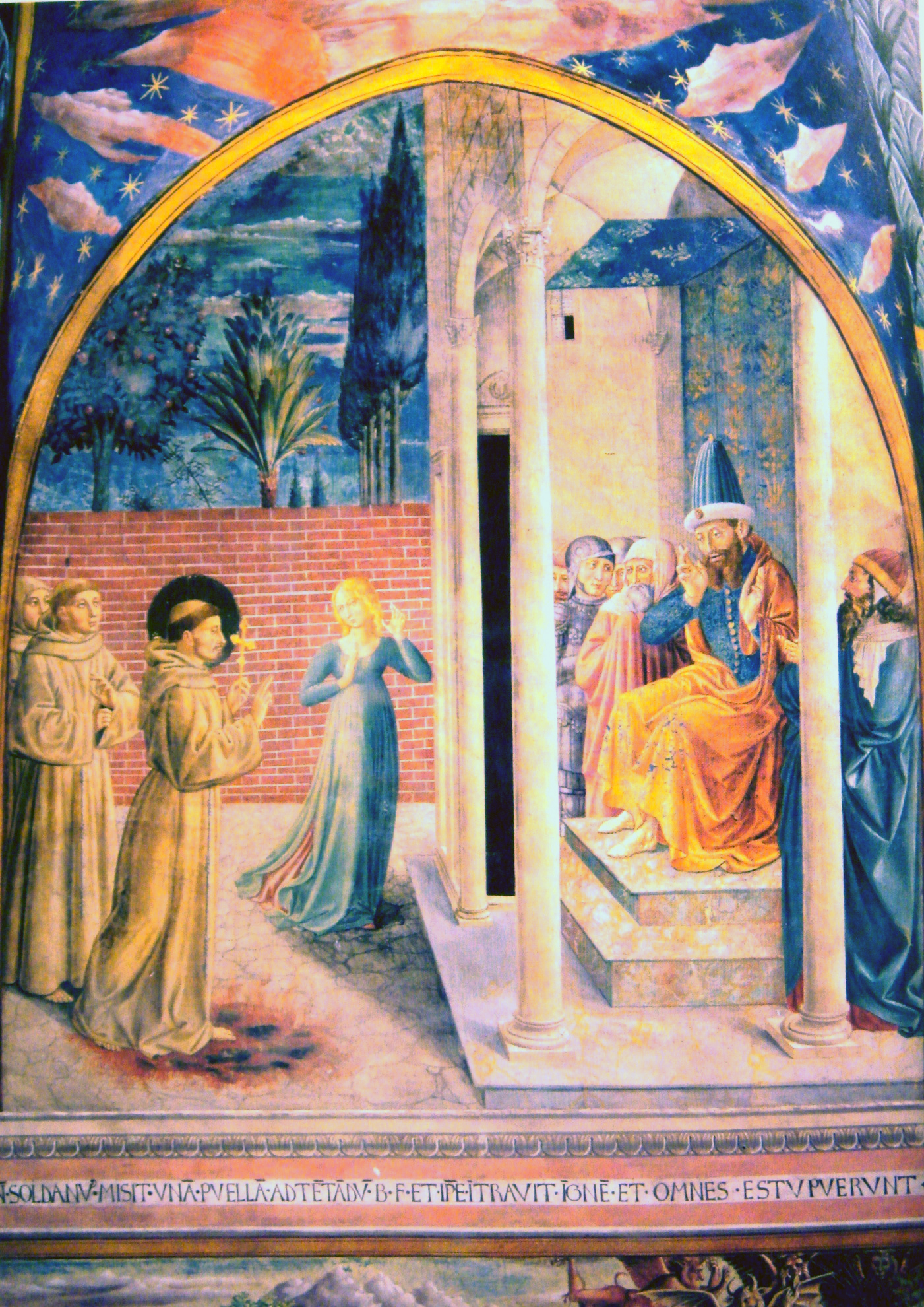 Saint Francis of Assisi with Al-Kamil, 15th Century